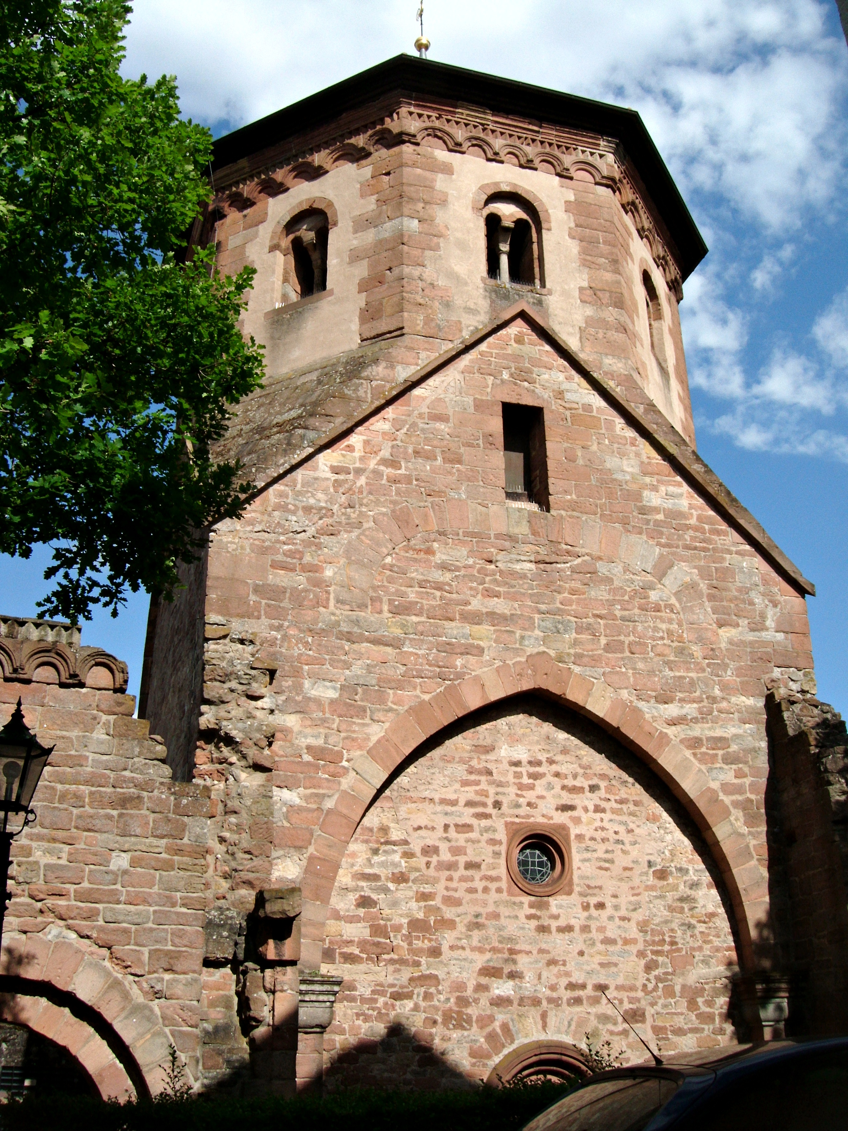 Seebach Klosterkirche von Westen